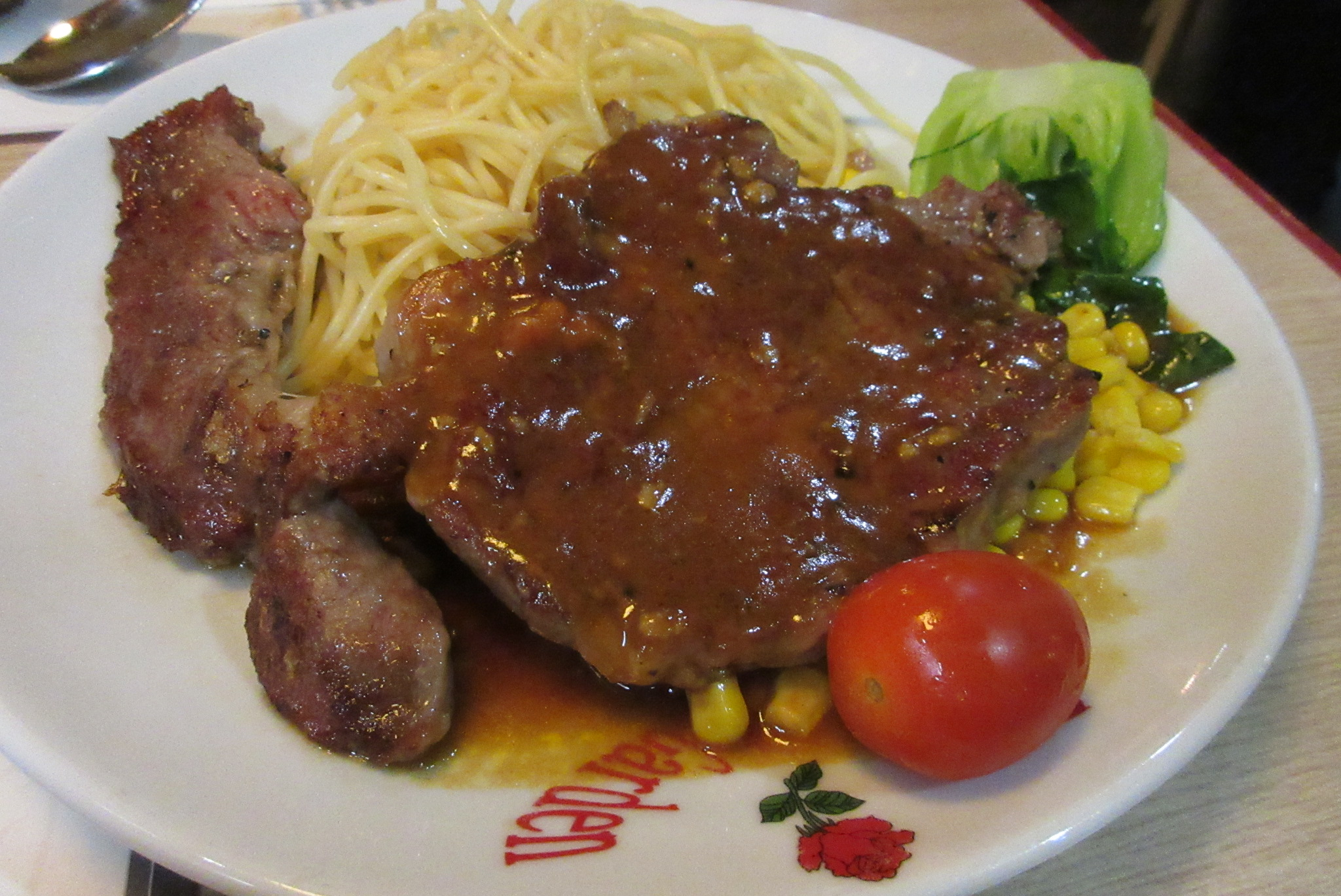 HK Mongkok WLB Bank Centre 花園餐廳 Sweetheart Garden food beef steak Italy noodle Spaghetti in Feb 2017